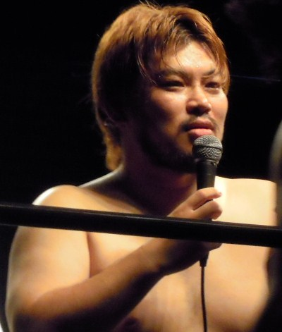 Japanese professional wrestler,Danshoku Dieno. DDT Sep 8 2010 Shin-Kiba.